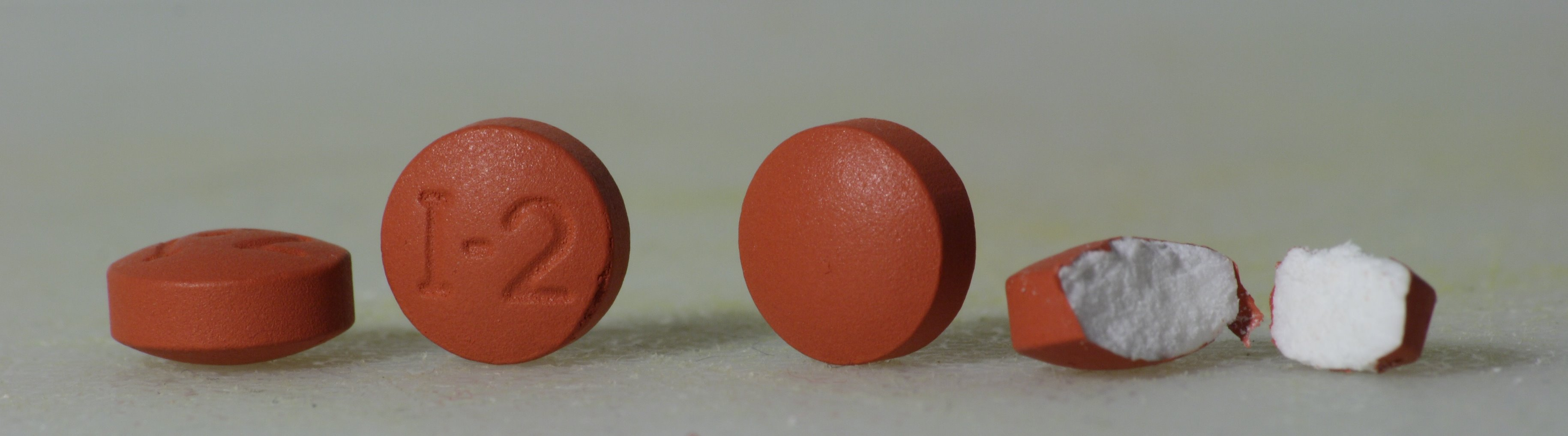 Coated 200 mg ibuprofen tablets, CareOne brand, distributed by American Sales Company of Lancaster, New York